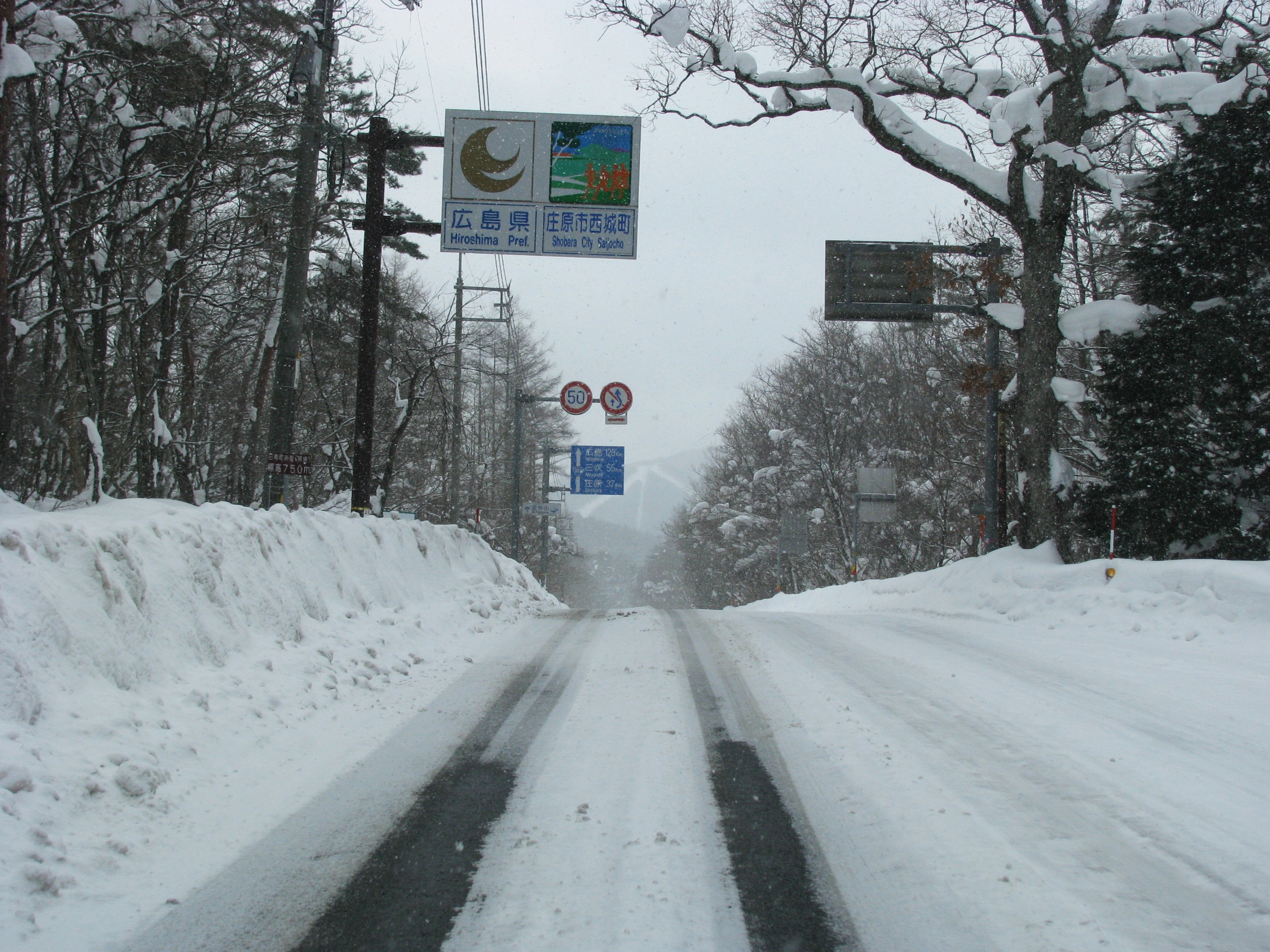 The Japan National Route 183. This place is boundary between Nichinan, Hino District, Tottori Prefecture and Shōbara, Hiroshima Prefecture in Japan.